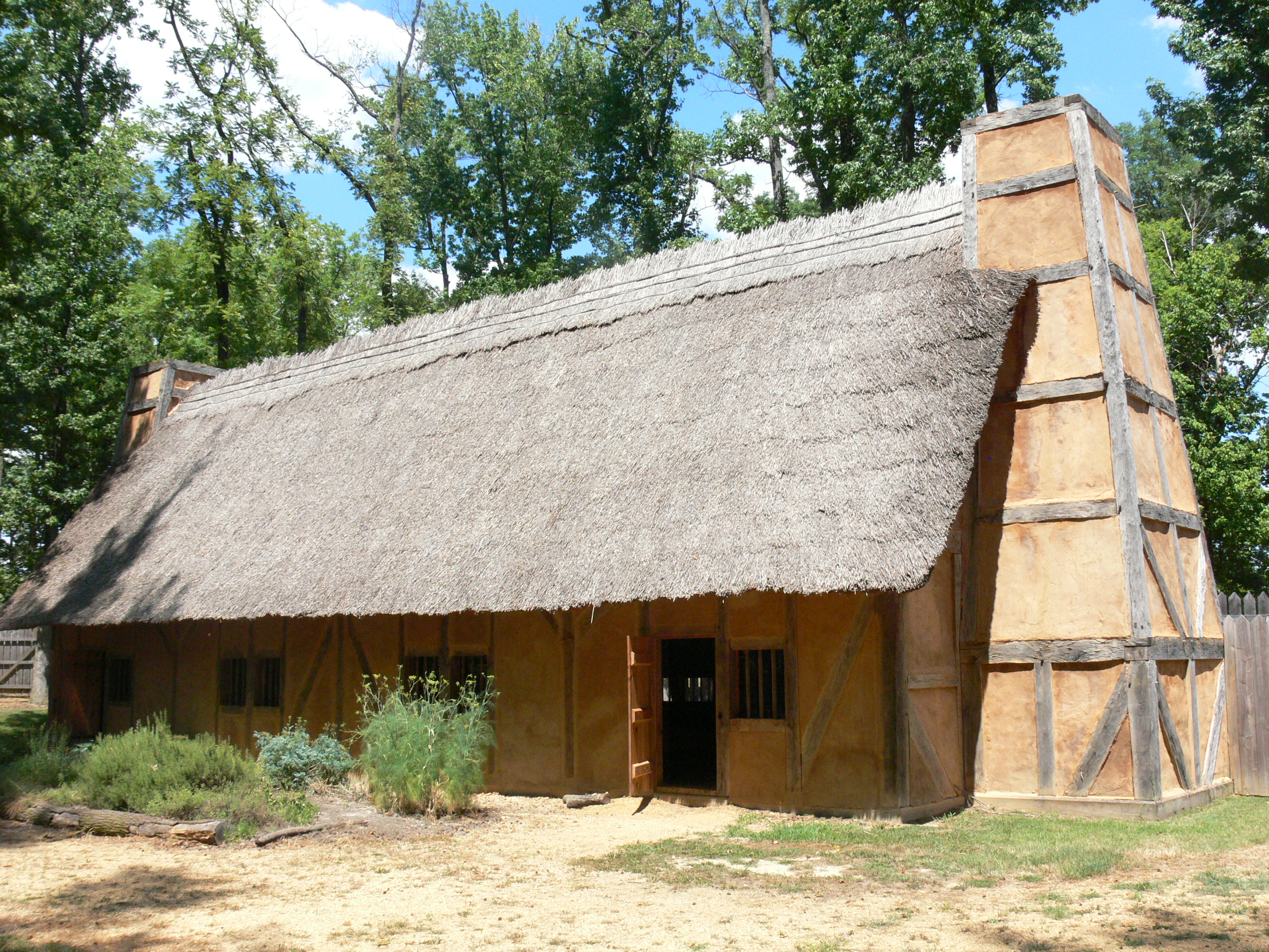 Image of the reconstruction of Mt. Malady, what is thought to have been the first hospital in the English colonies of what is now the United States, at Henricus Historical Park in Chesterfield County, Virginia